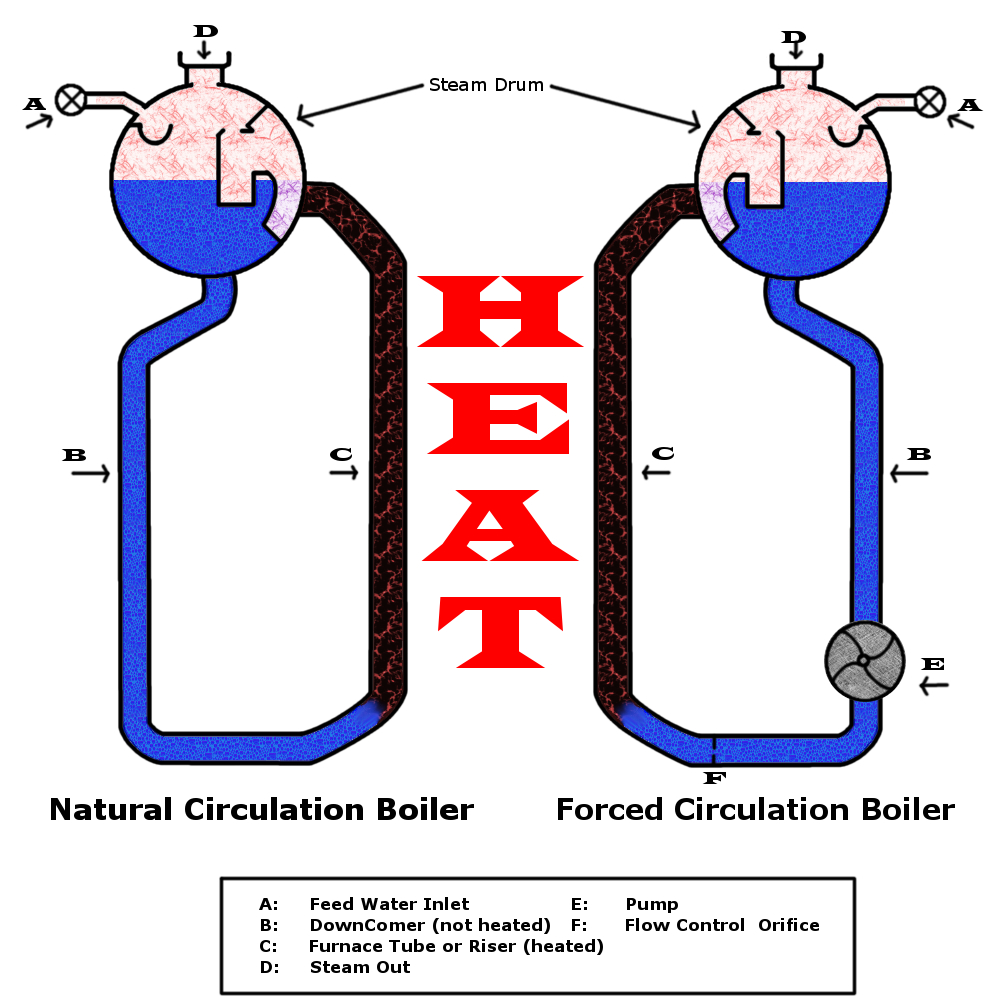 General Comparison Between Natural and Forced Circulation Boilers